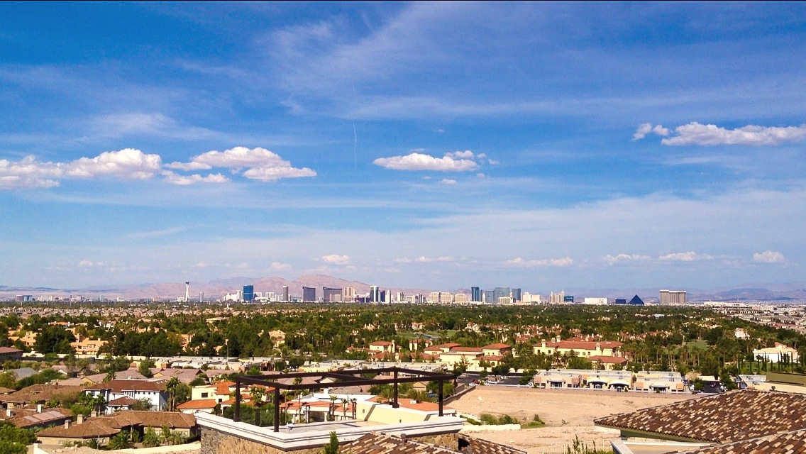 Spring Valley, Nevada as seen from the Spanish Hills community in 2016. Taken from atop Spanish Heights Driver.